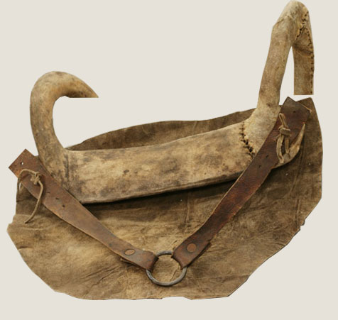 Saddle c 1870s This type of saddle was used by men when traveling or to pack supplies. It is a wood frame, cottonwood was commonly used, covered with rawhide and sewn together with sinew. The fenders and cinch straps are made from commercial harness leather and the cinch rings are made of iron. Rawhide, buckskin, iron. L 44.0, H 26.0 cm Nez Perce National Historical Park, NEPE 162